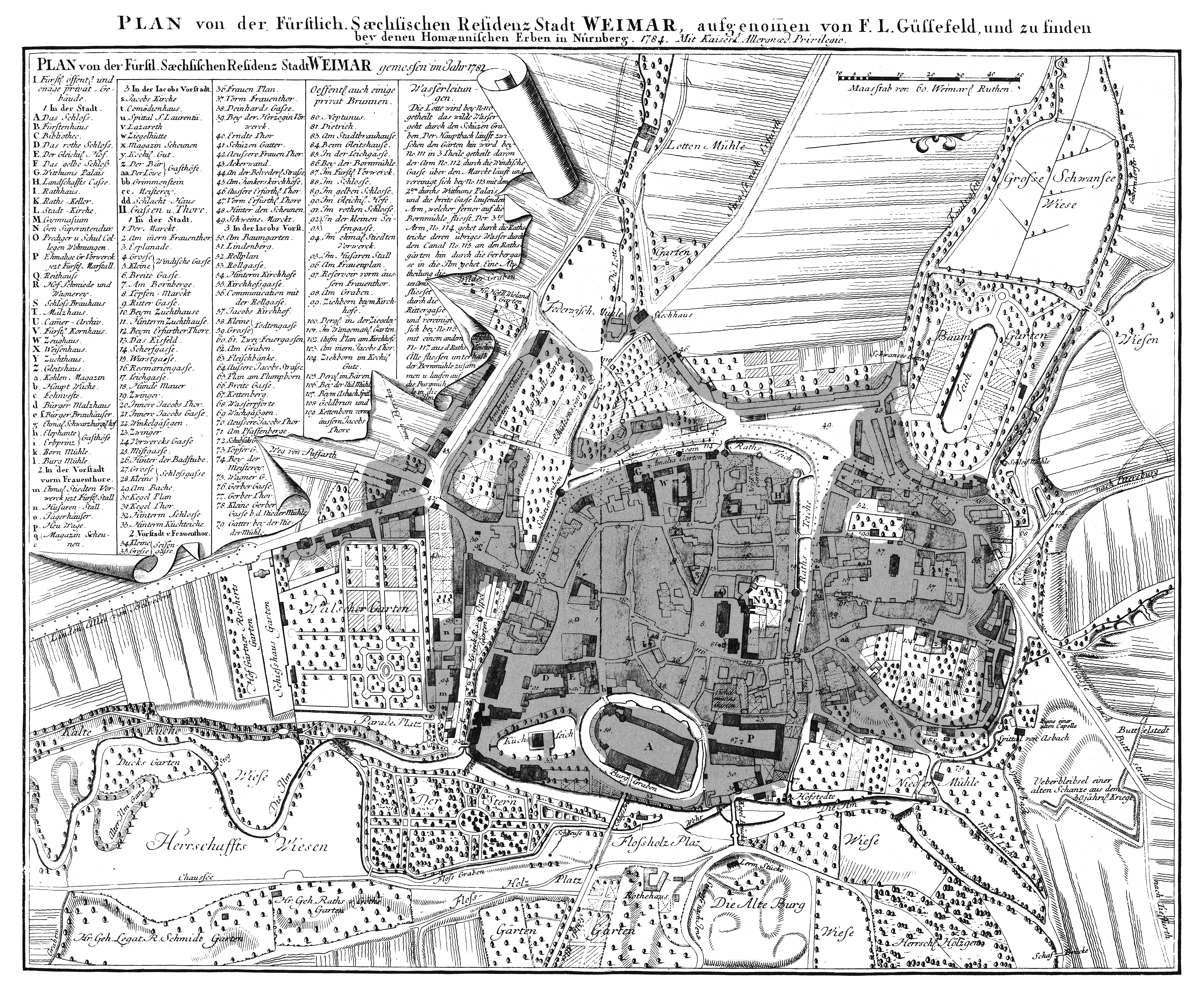 Town map of Weimar in 1782, etching by Franz Ludwig Güssefeld. North is at the right side.Note the entry “H[er]r[n] HofR[at] Wieland[s] Garten” (Christoph Martin Wieland’s garden) top-left from the center and the entry “H[er]r[n] Geh[eim-]Raths v[on] Göthe Garten” (Goethe’s garden) at the bottom left.